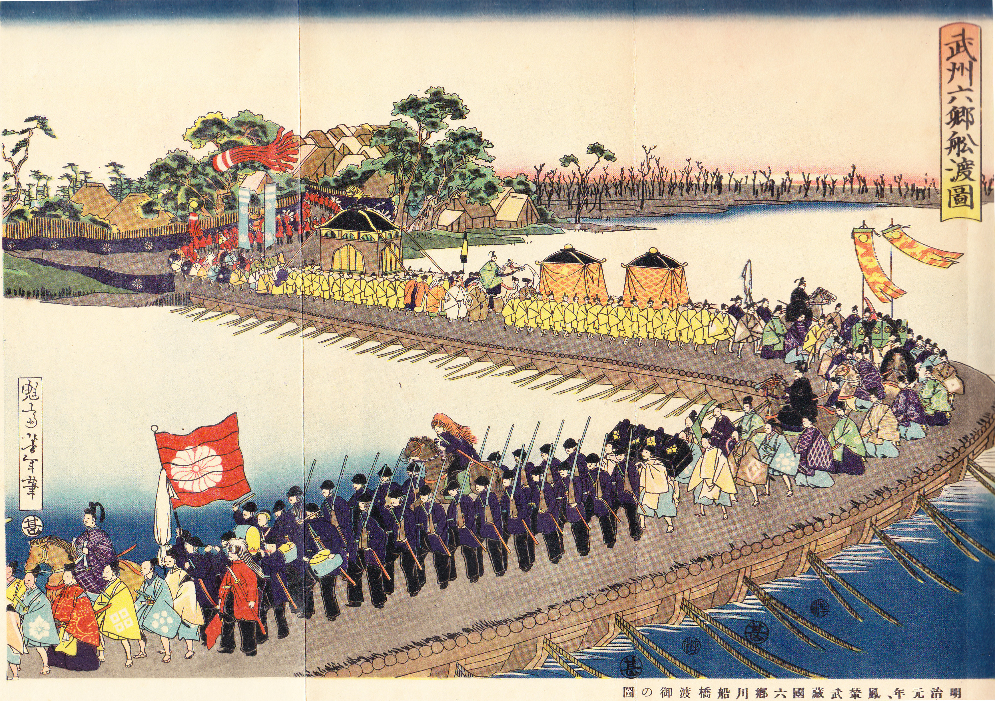 Bushu Rokugo funawatashi no zu. An Ukiyoe printed by UTAGAWA Honen in 1868. This picture shows the first arrival of Emperor Meiji to Yedo.